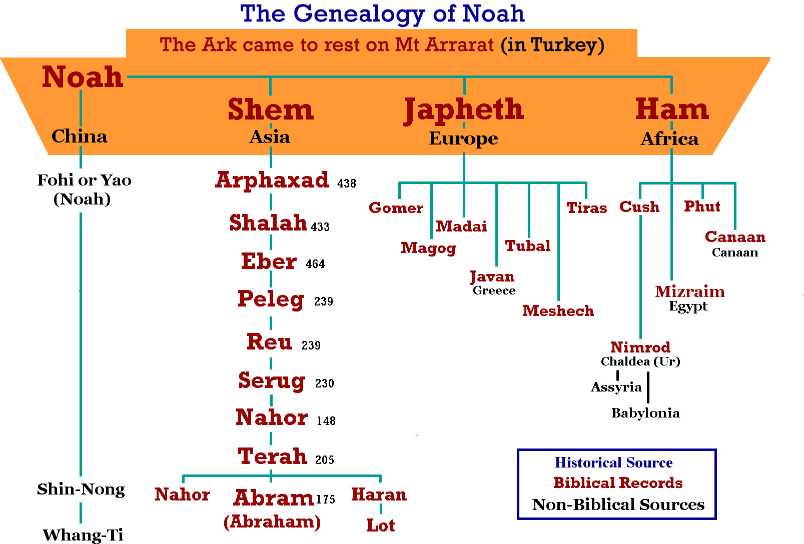 The Genealogy of Noah after the flood up to Abraham according to the Bible